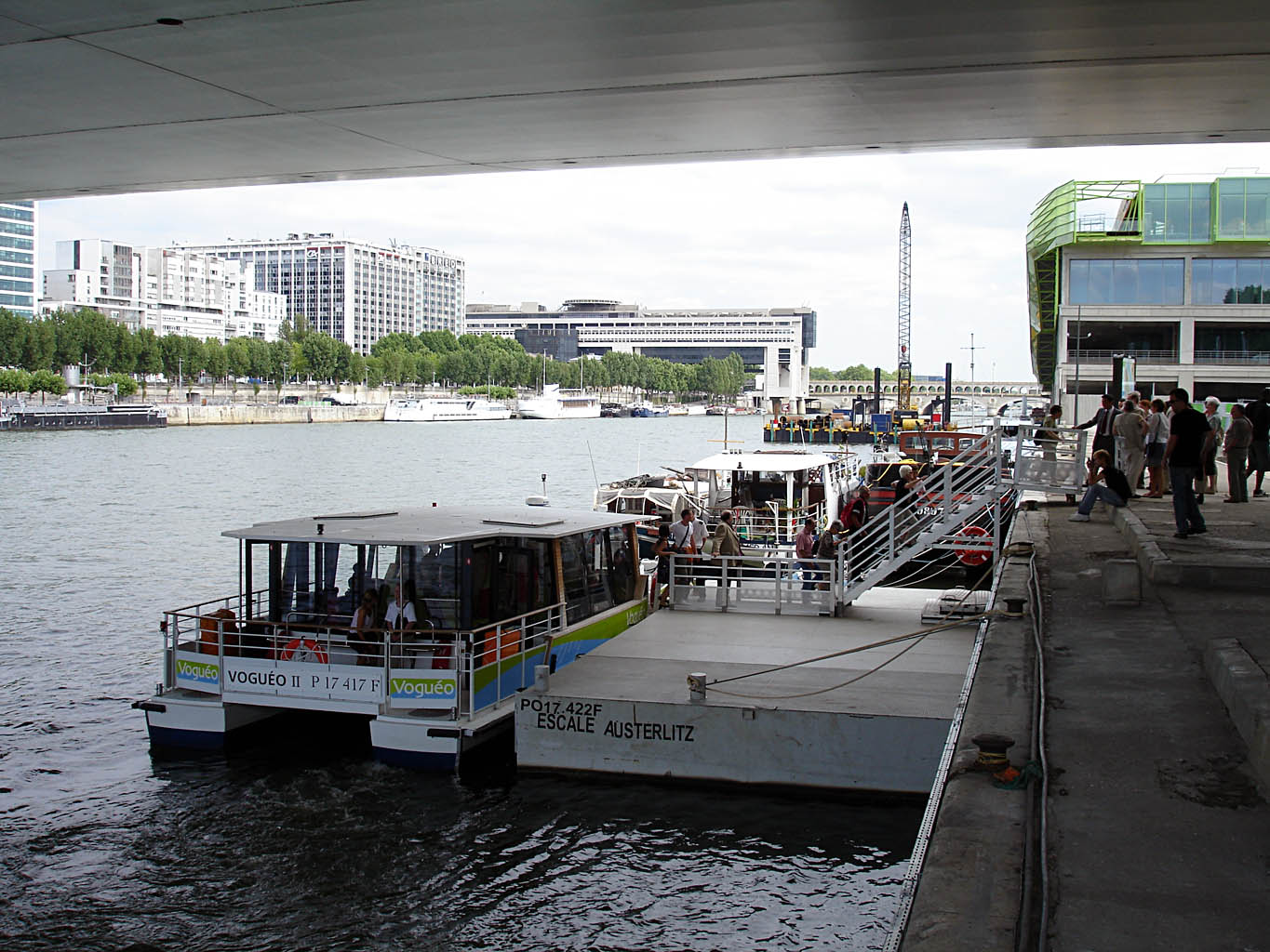 Austerlitz pier, river shuttle Voguéo, on the river Seine in Paris, France